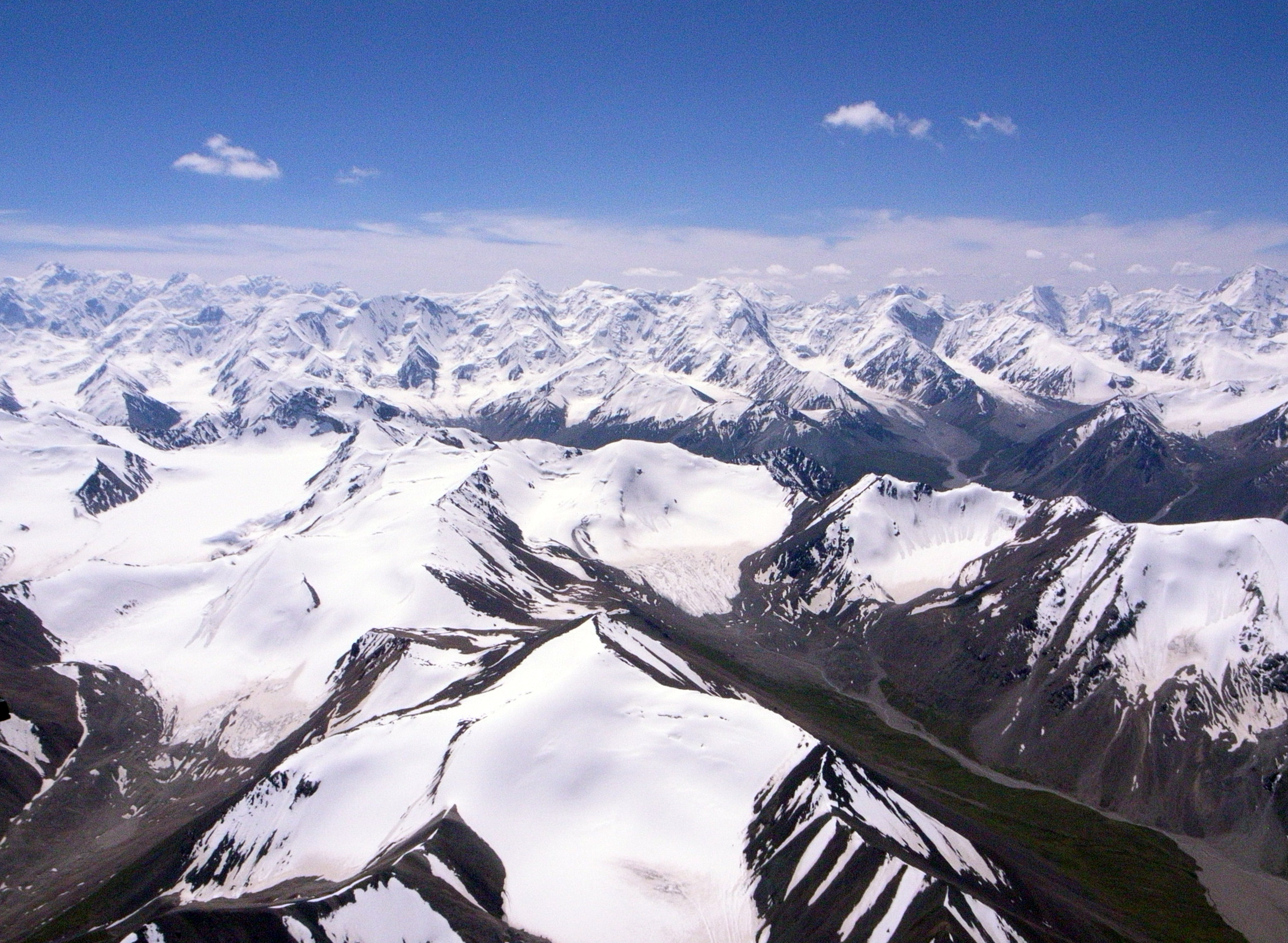 天山山脉，跨越中国、吉尔吉斯斯坦、哈萨克斯坦、巴基斯坦、印度和乌兹别克斯坦六国。 Tian Shan range, crossing People's Republic of China, Pakistan, India, Kazakhstan, Kyrgyzstan and Uzbekistan